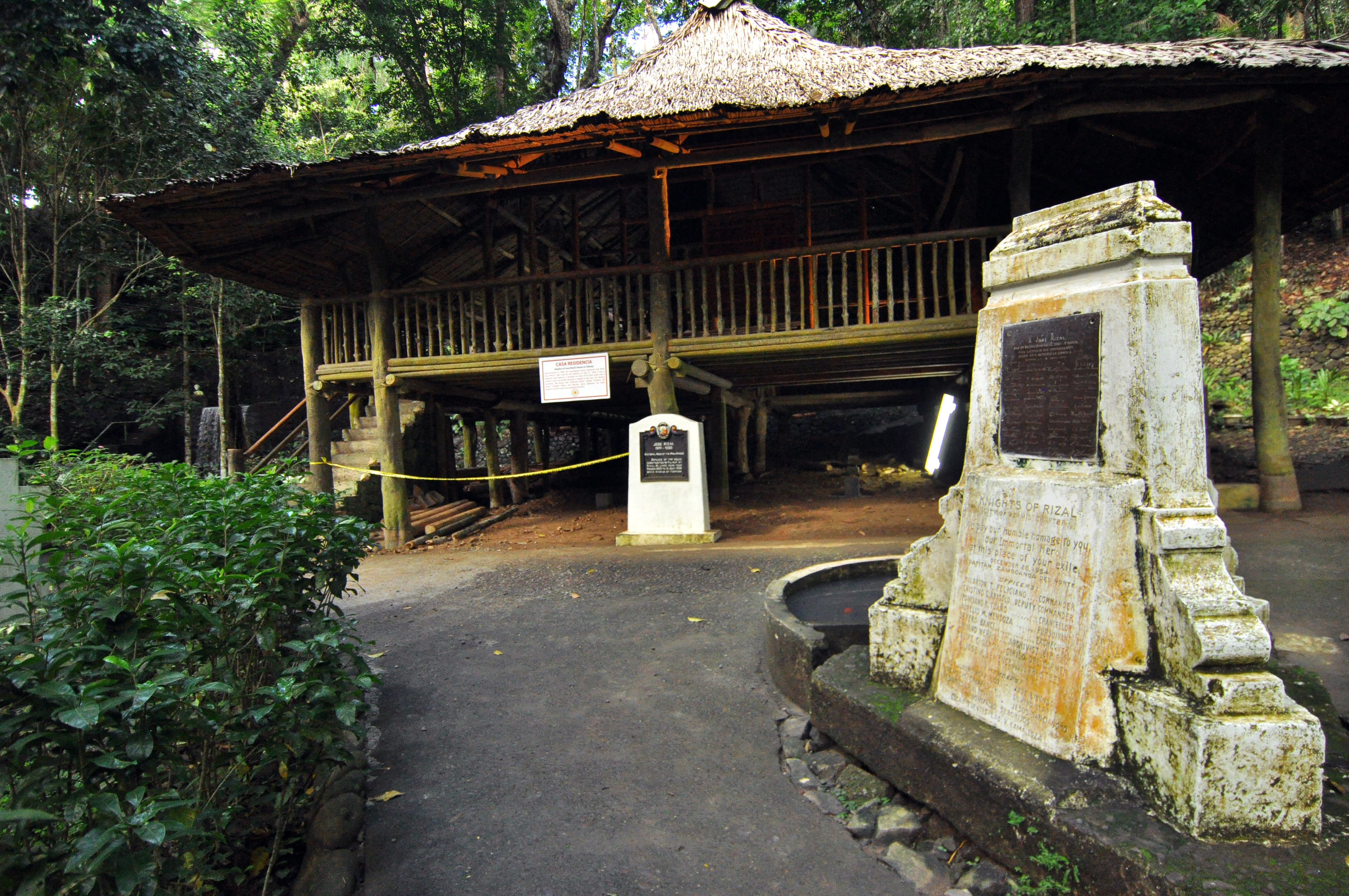 Built structures inside the Rizal Shrine in Dapitan City.